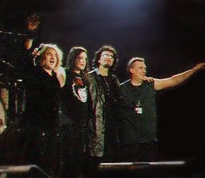 Black Sabbath on stage at Schleyerhalle in Stuttgart, Germany. "Reunion Tour". From left to right: Geezer Butler, Ozzy Osbourne, Tony Iommi, Bill Ward